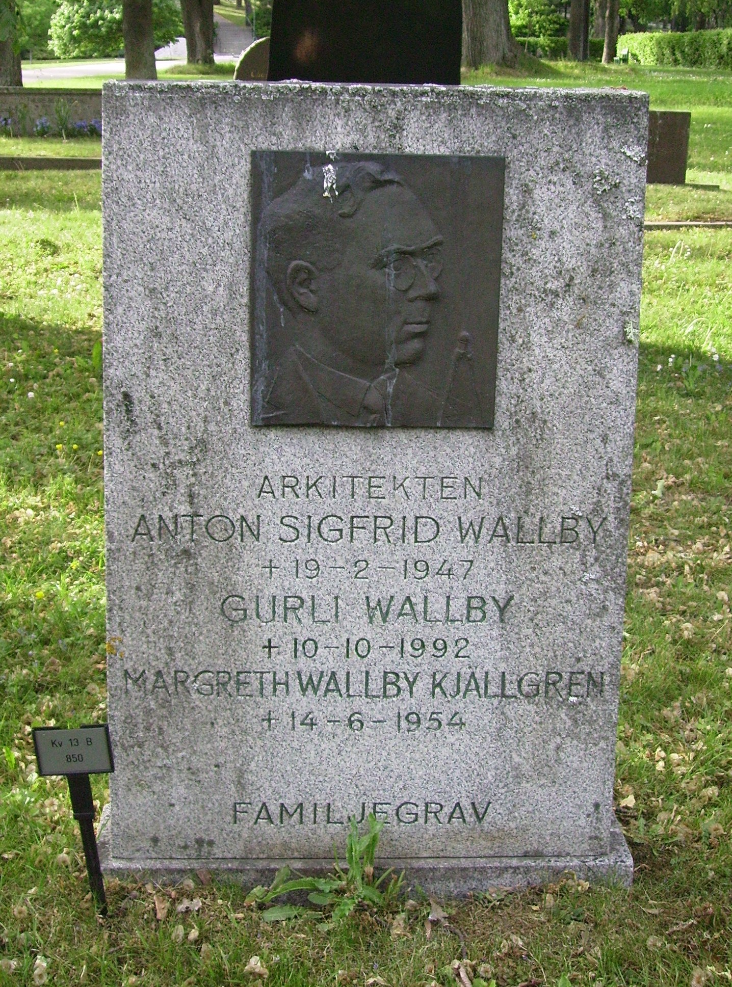 Picture of Anton Wallby's grave at Norra begravningsplatsen in Solna